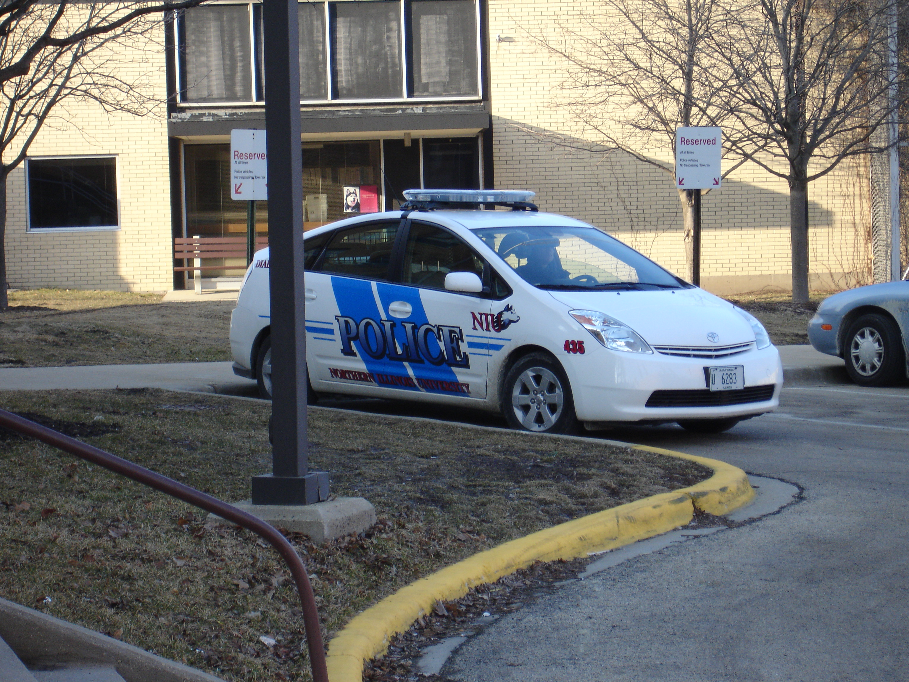 NIU PD Toyota Prius, Northern Illinois University. DeKalb, Illinois